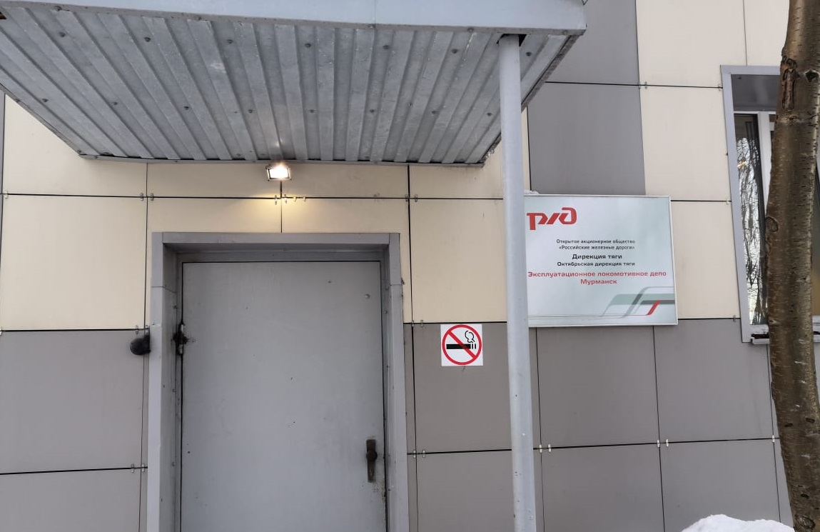 Вход в административное здание